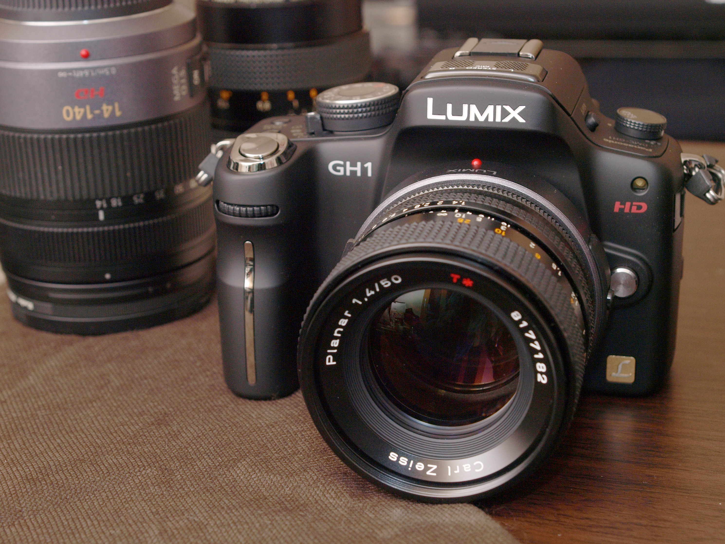 Panasonic Lumix DMC-GH1, black trim (Mfg. No. DMC-GH1K)